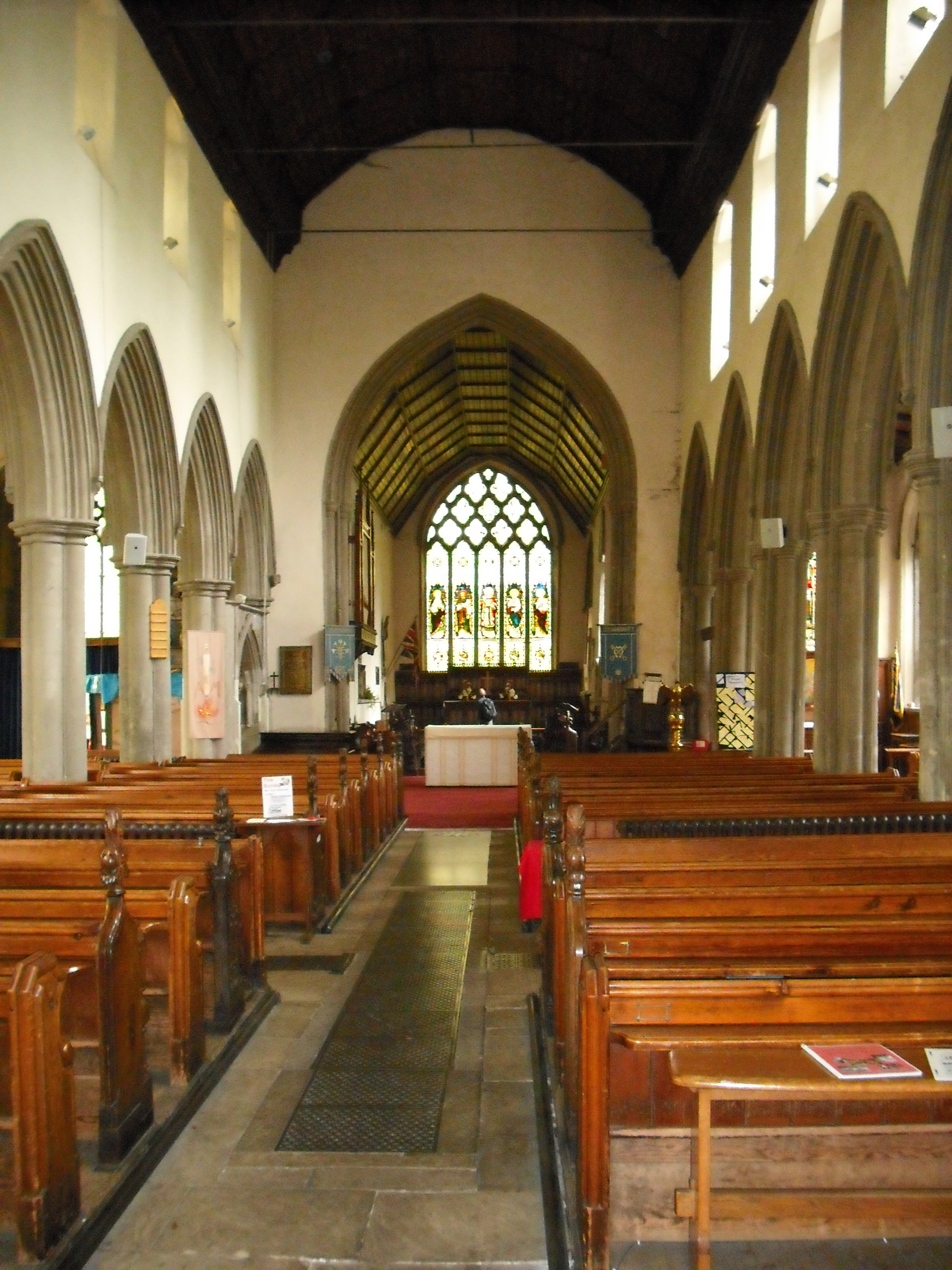 St Peter and St Mary's church, Stowmarket, Suffolk - nave